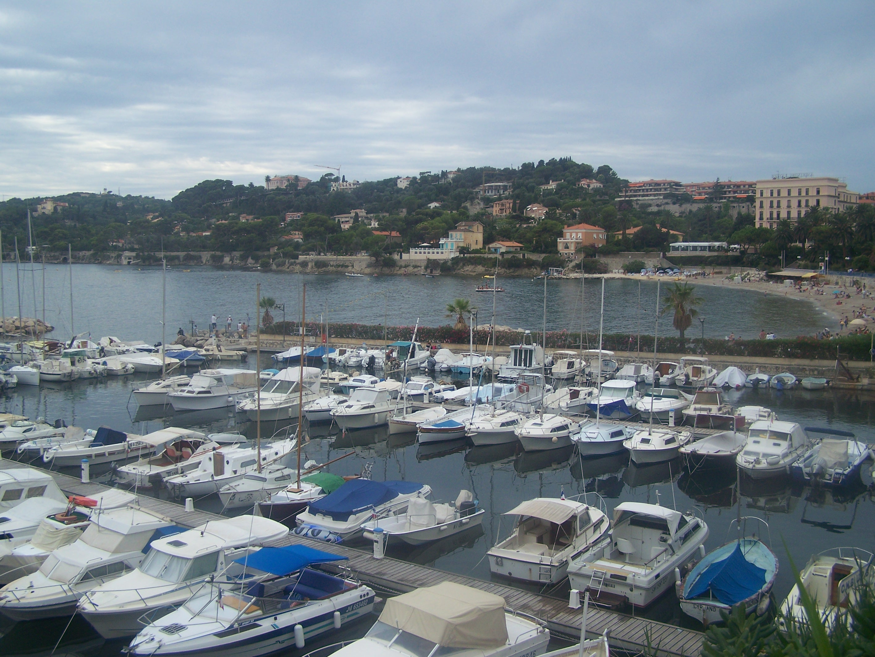 The port of Beaulieu sur Mer, in the South-East of France. The old port in the Baie des Fourmis